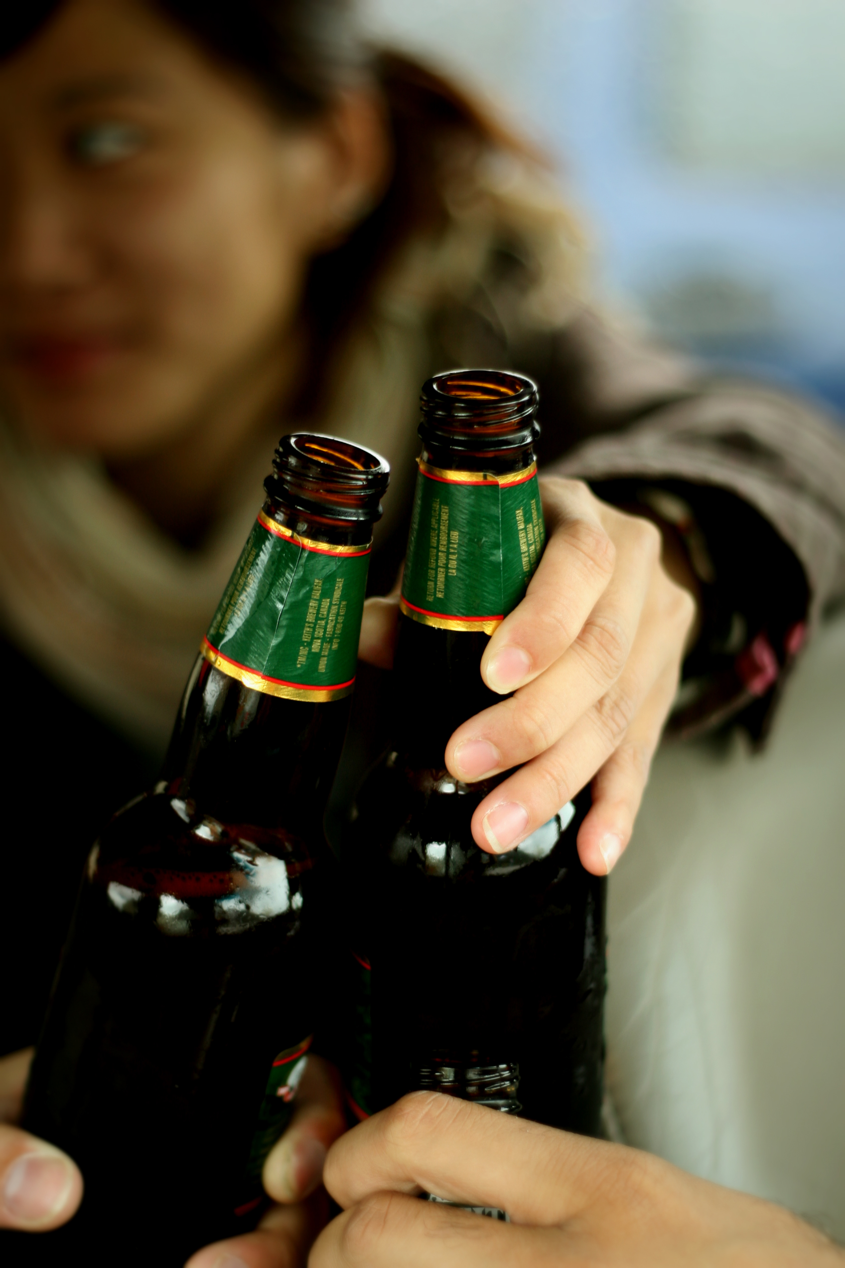 Beer at Harrison Hot Springs, British Columbia, Canada.